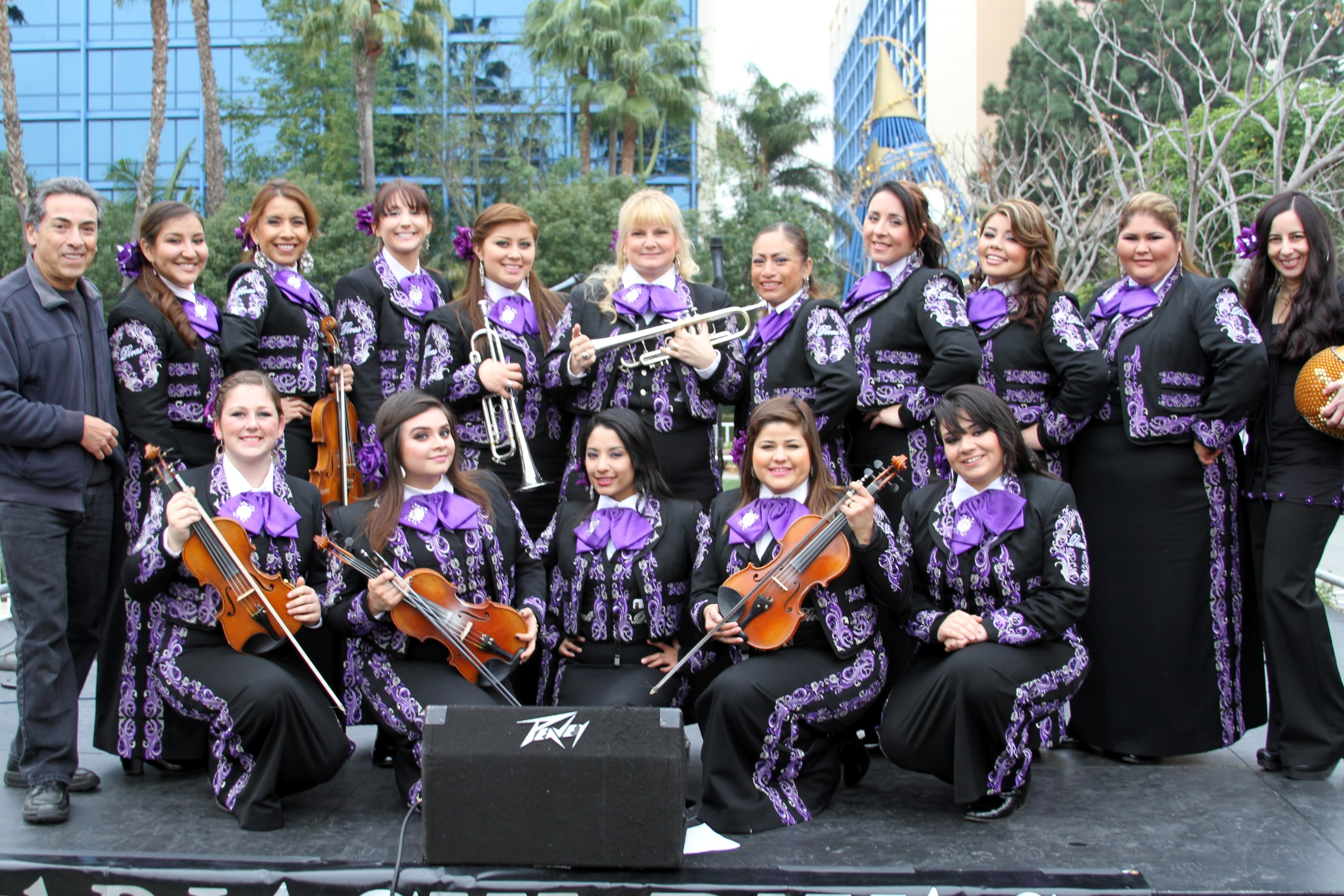 Grammy Winner and 2013 Nominee, Mariachi Divas